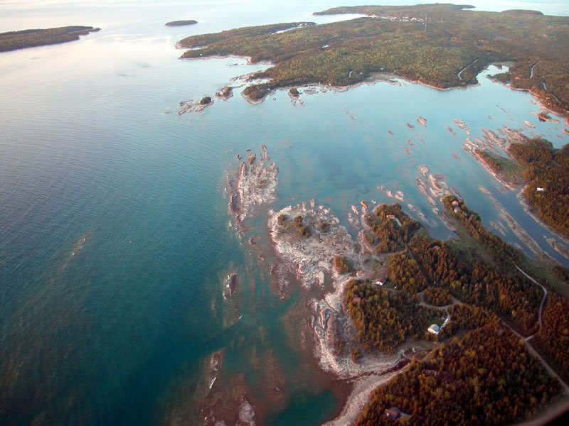 Lake Huron Shoreline in the Bruce Peninsula Shari Chambers